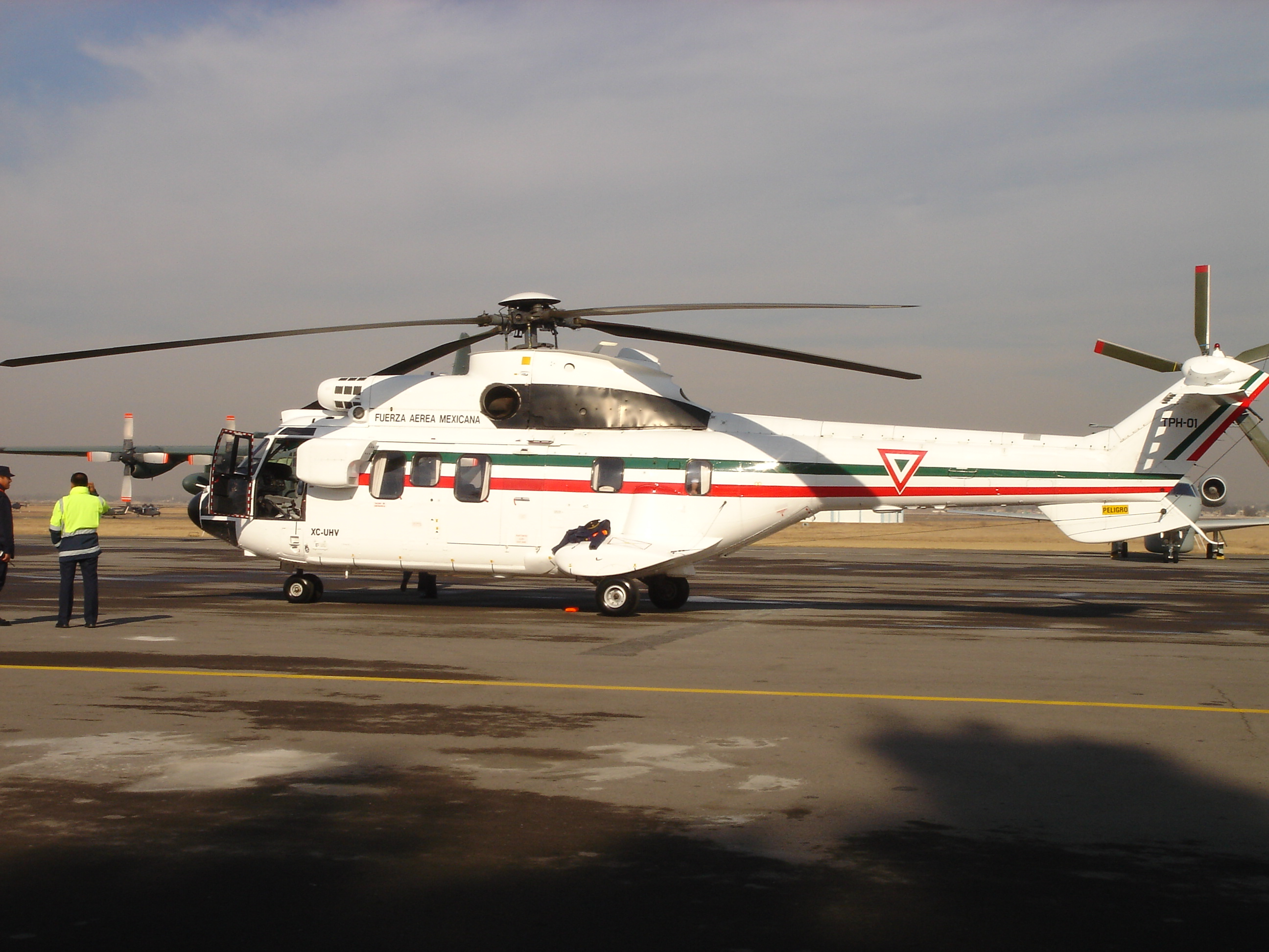 President's helicopter (TPH-01)